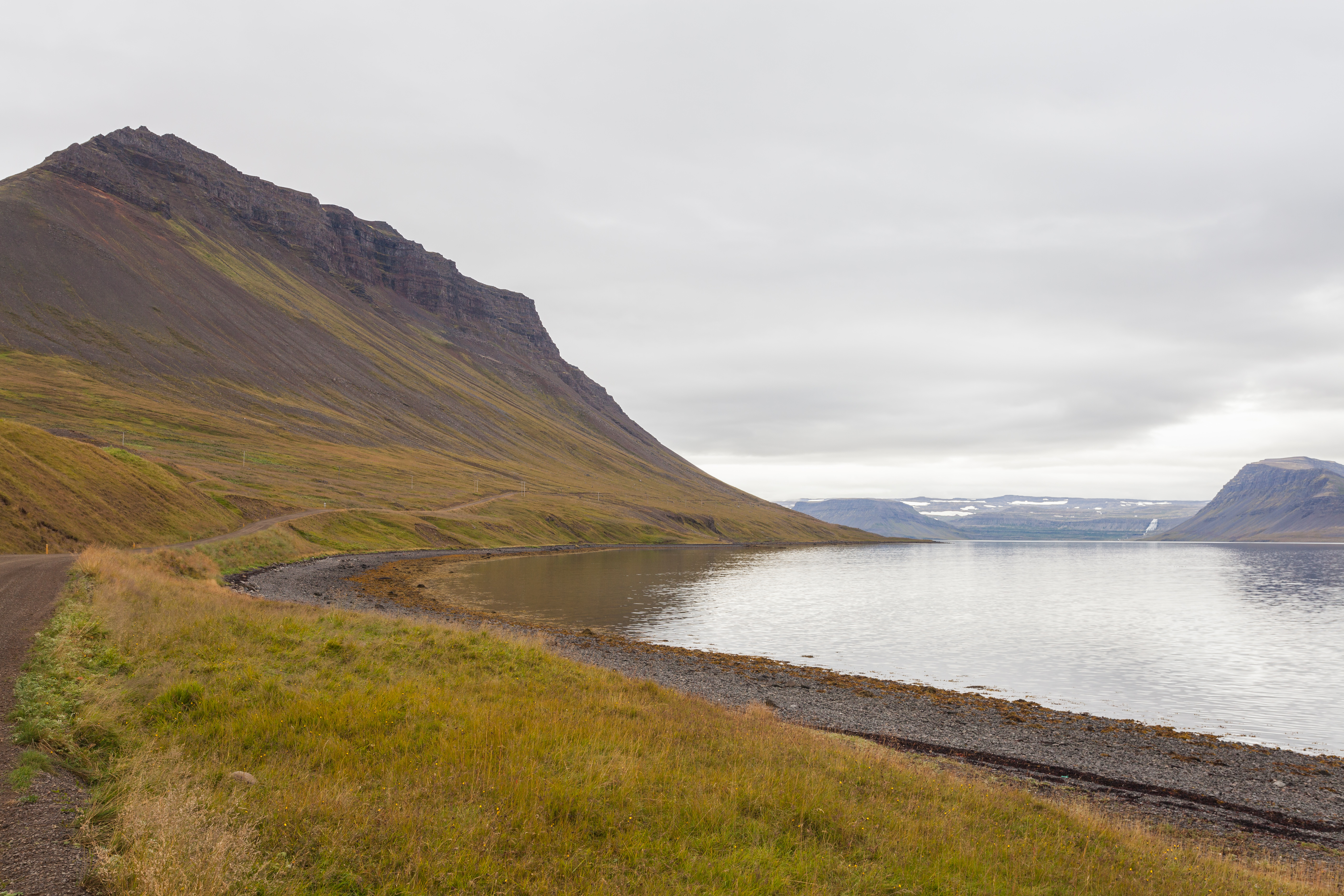 Arnarfjörður, Vestfirðir, Iceland.